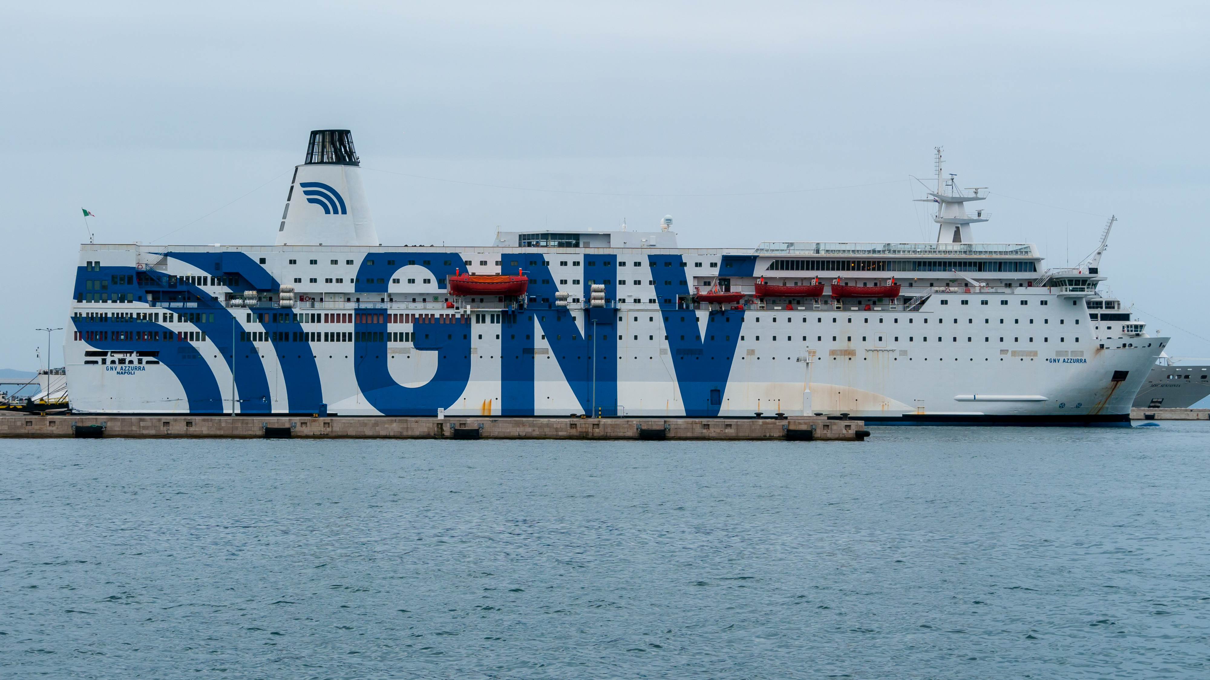 GNV Azzurra in Split, Croatia